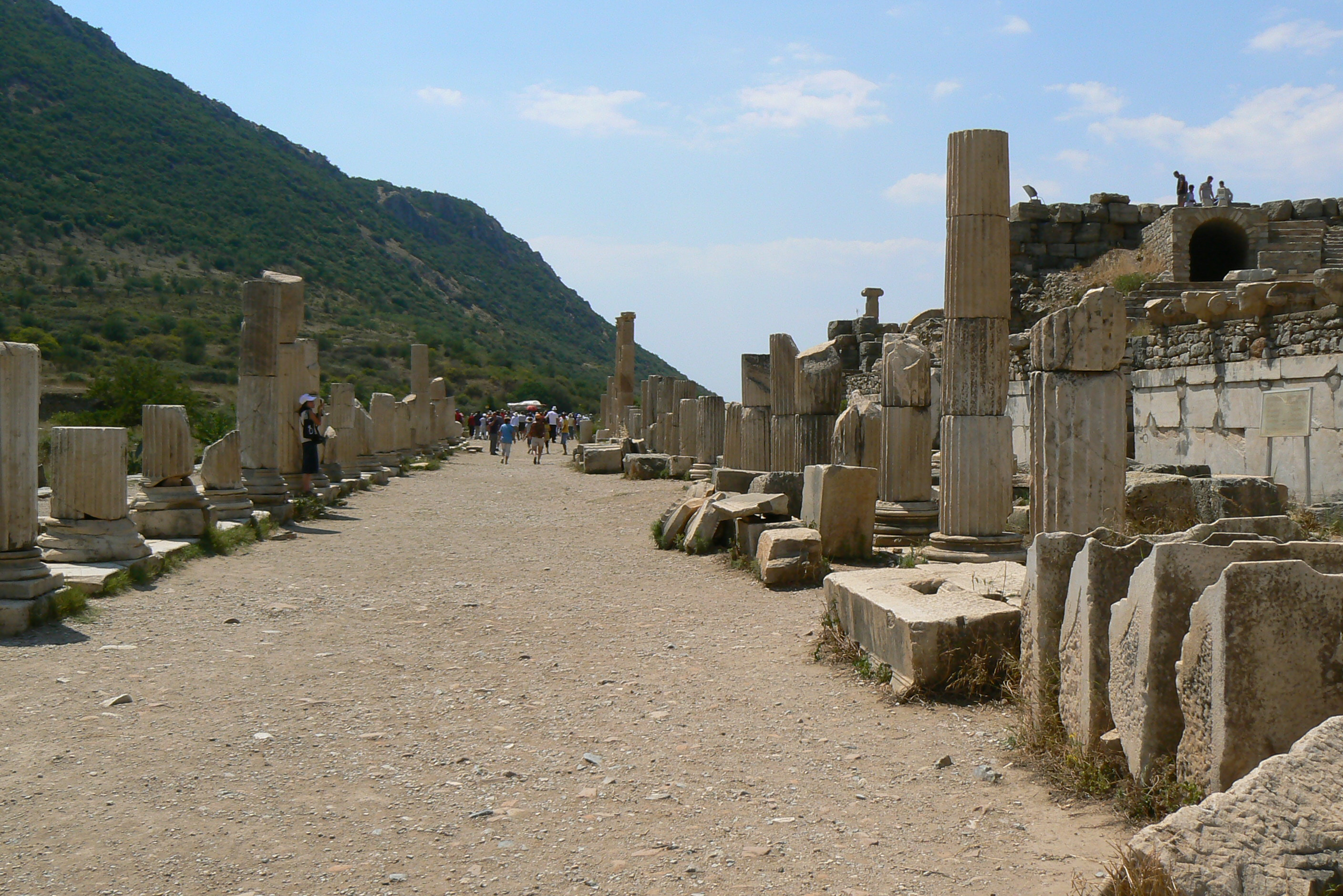 Ephesus, Basilica